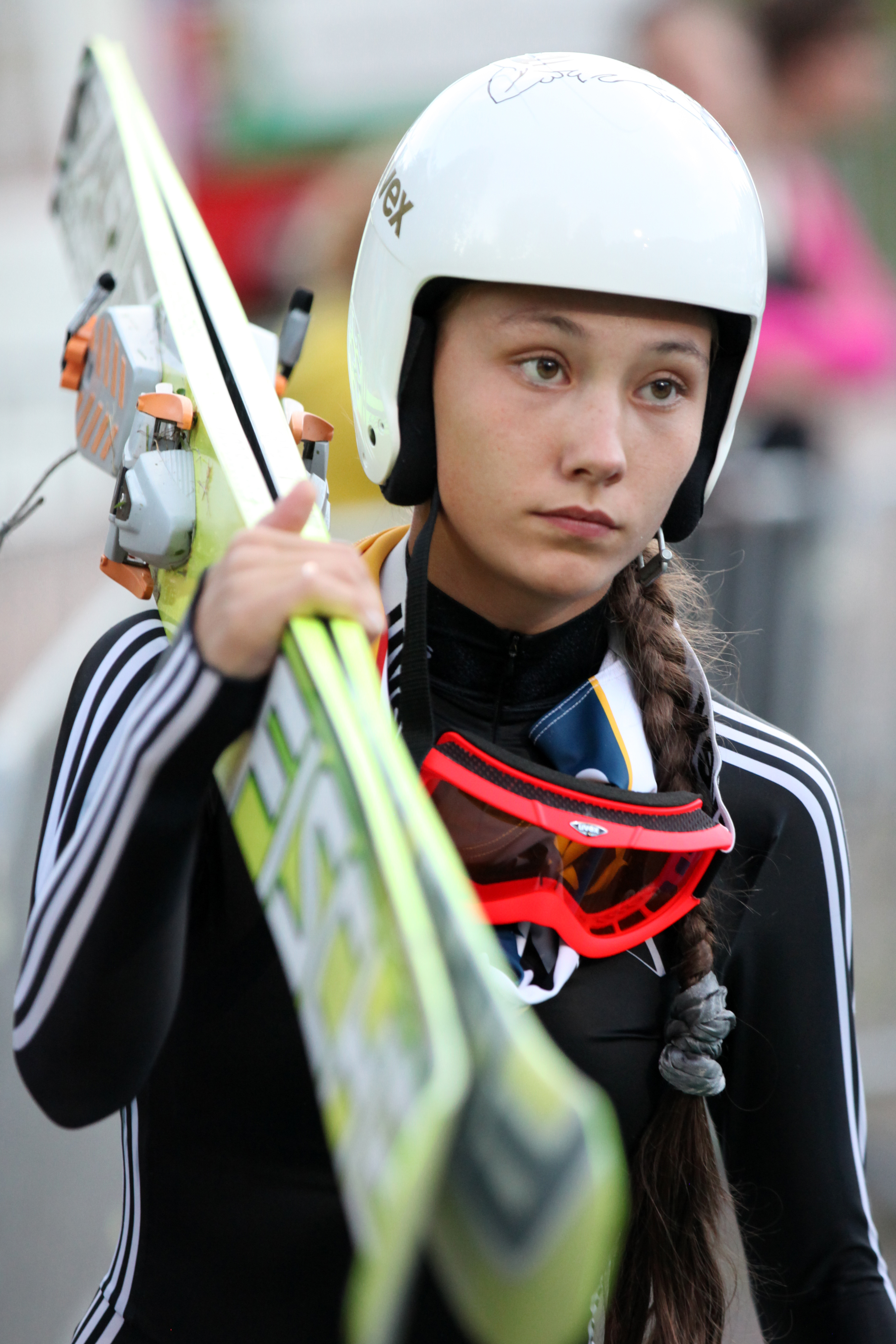 Irina Andreevna (Andreyevna) Avvakumova, née Taktaeva (Taktayeva), Russian Ирина Андреевна Аввакумова Тактаева, at the Summer Grand Prix Ski Jumping in Hinterzarten.